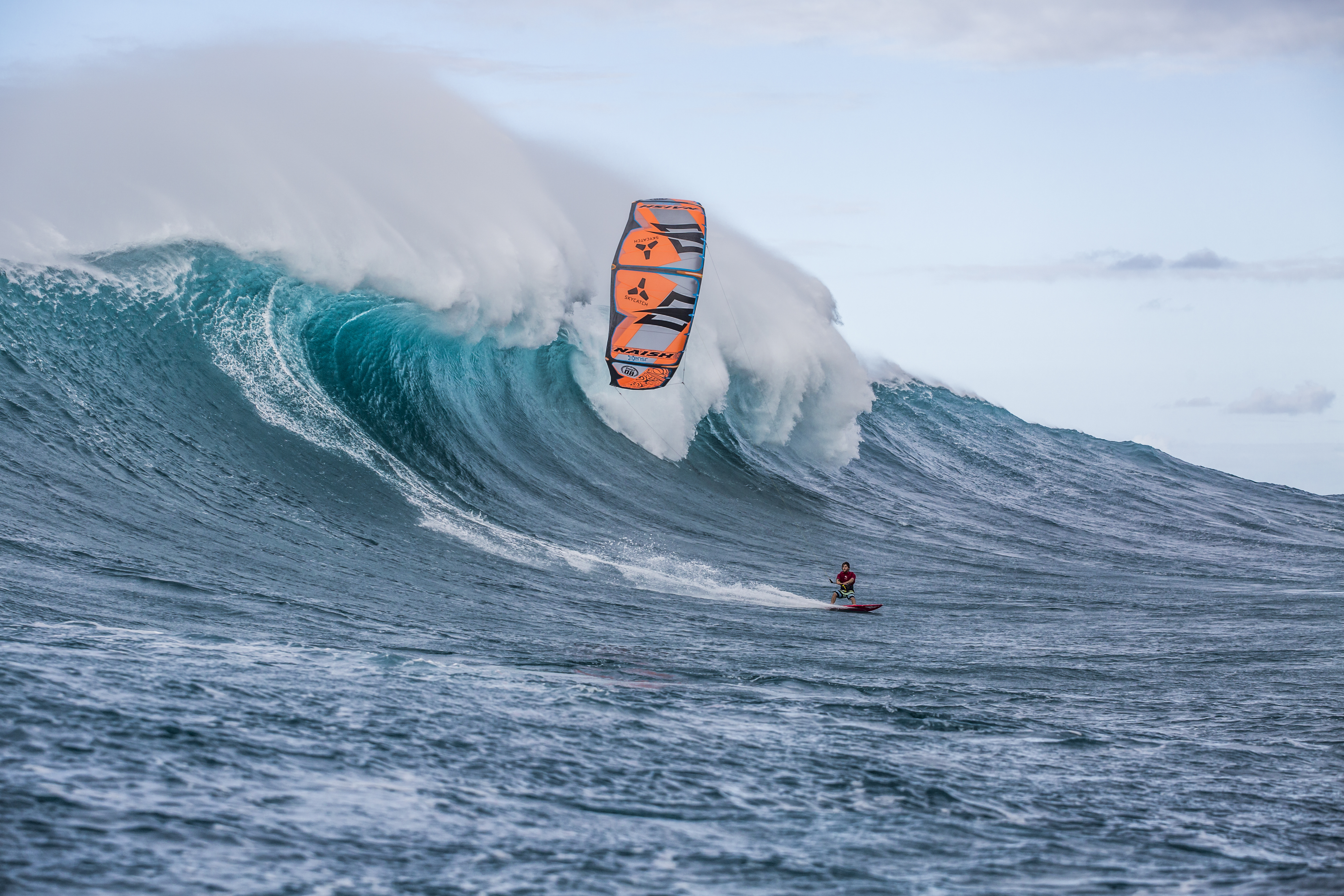 Jesse Richman, photographed by Pierre Bouras, kitesurfing at "Jaws", Peʻahi, Maui, Hawaii.